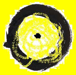 Ein Sof and Tzimtzum (Hebrew צמצום ṣimṣūm "contraction" or "constriction"). God contracted his infinite light in order to allow for a conceptual space, in which a independent world could exist.